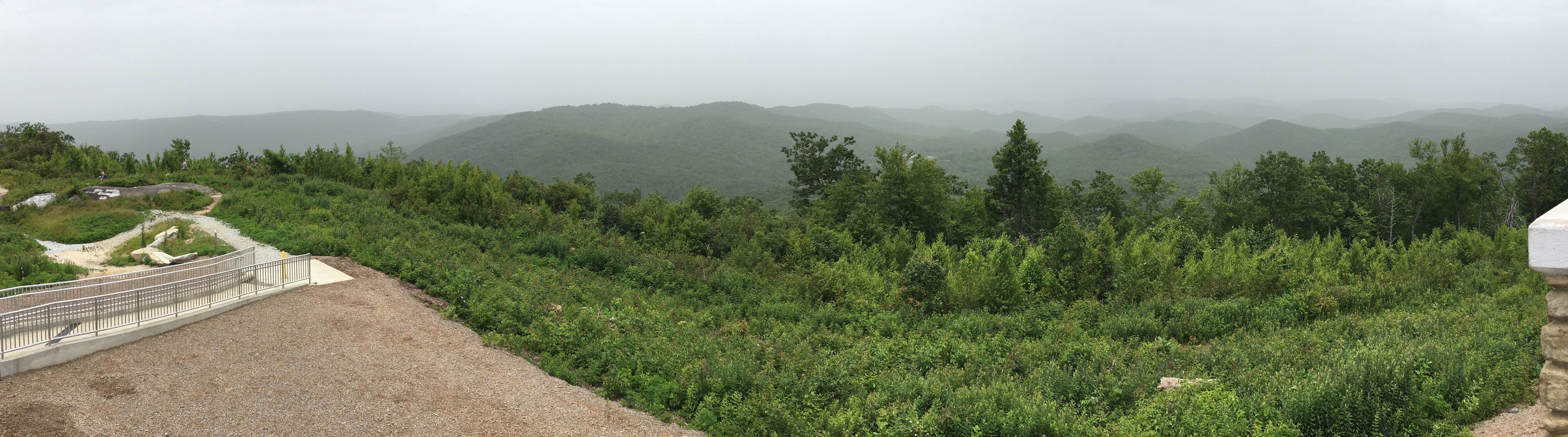 The view from the observation tower on the summit of Sassafras Mountain, South Carolina in June 2020